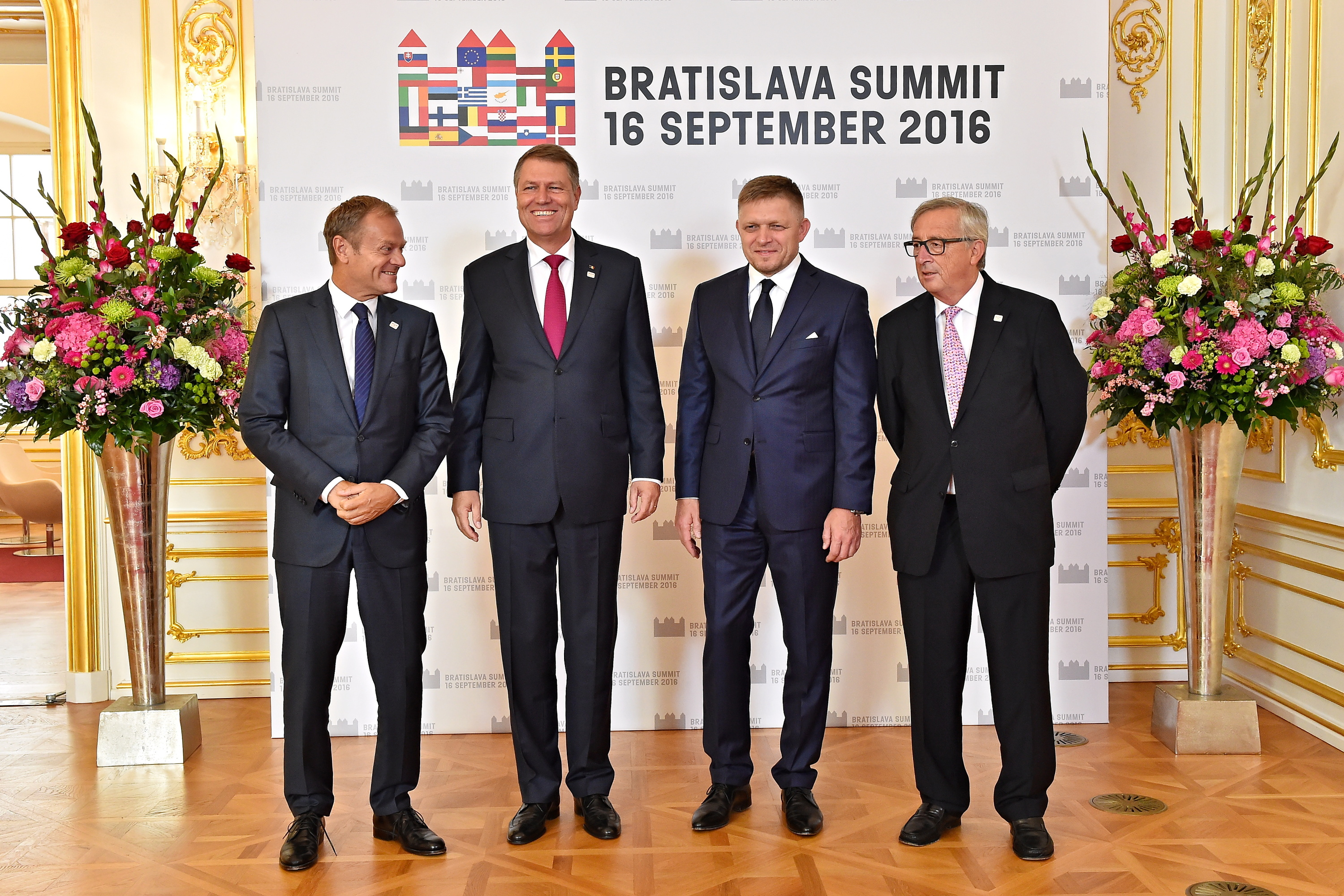 HANDSHAKE - BRATISLAVA SUMMIT 16. SEPTEMBER 2016. Donald Tusk, European Council, President - Klaus Werner Iohannis, Romania, President - Róbert Fico, Slovakia, Prime Minister- Jean-Claude Juncker, European Commission, President Photo Rastislav Polak